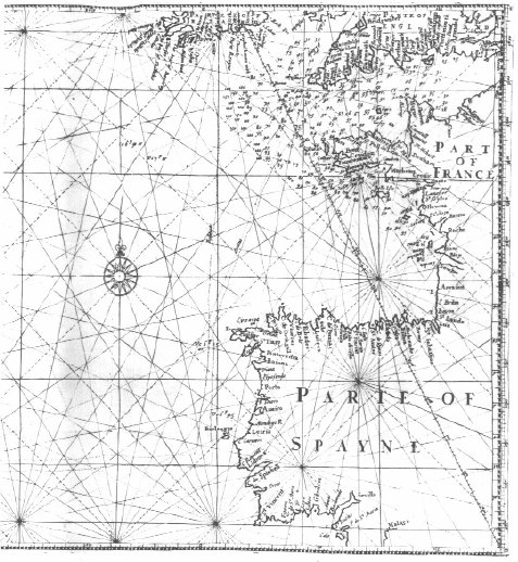 English mathematician and cartographer Edward Wright's map "for sailing to the Isles of Azores", which was constructed according to the Mercator projection which Wright explained in his work Certaine Errors of Navigation (1599). The star-like grid of lines are loxodromes or rhumb lines.